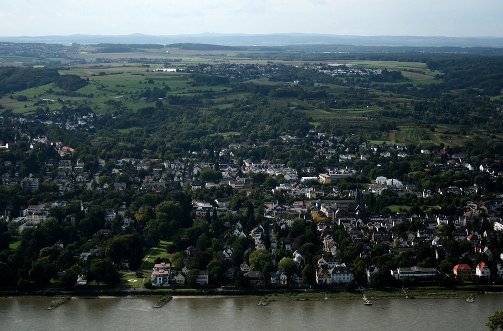 aerial view of Mehlem, Bad Godesberg, Bonn, Germany - looking west over the Rhine